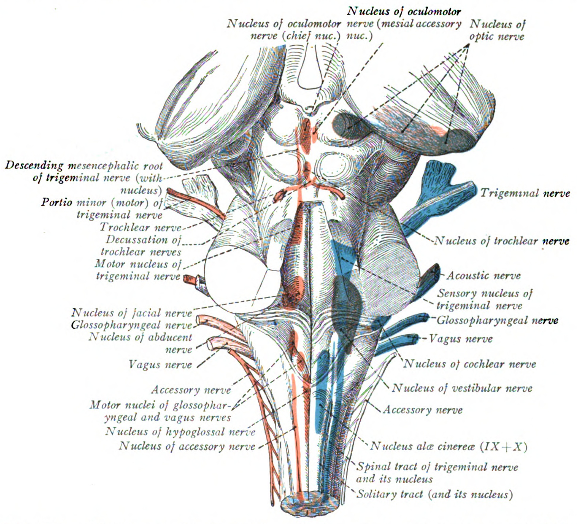 An anatomical illustration from Sobotta's Anatomy 1908 edition.